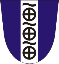 Coat of arms of Viru-Nigula vald Estonia